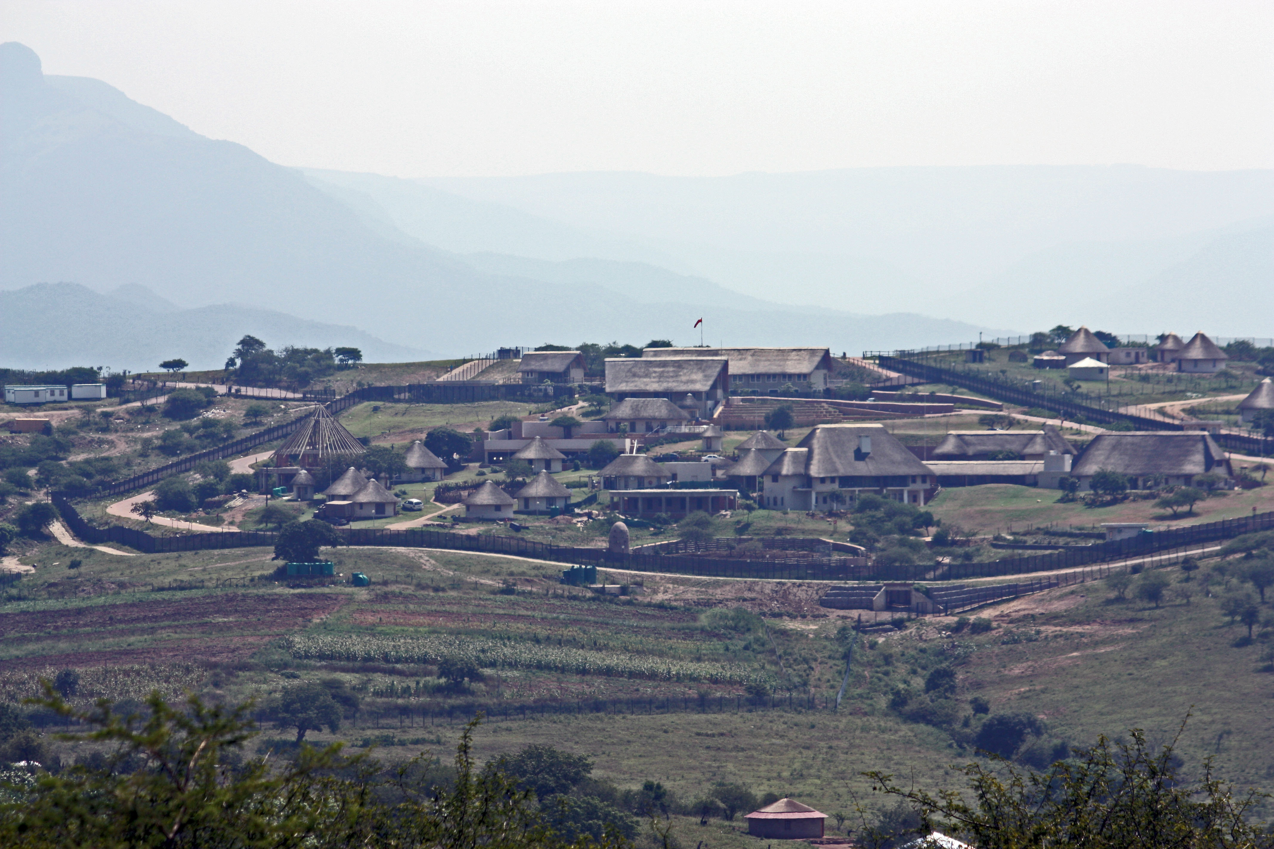 President Jacob Zuma's homestead/compound between Kranskop and Eshowe in the greater Nkandla District